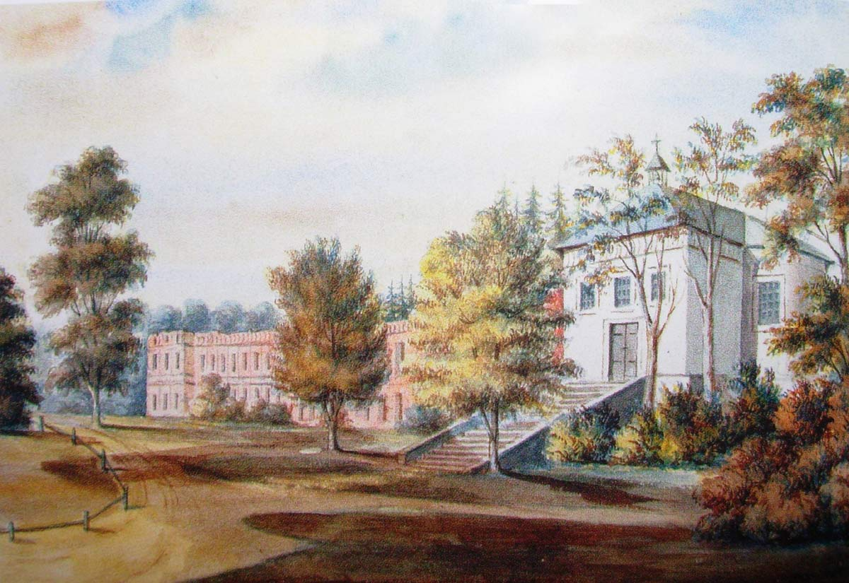 Palace of the Manutsy family.